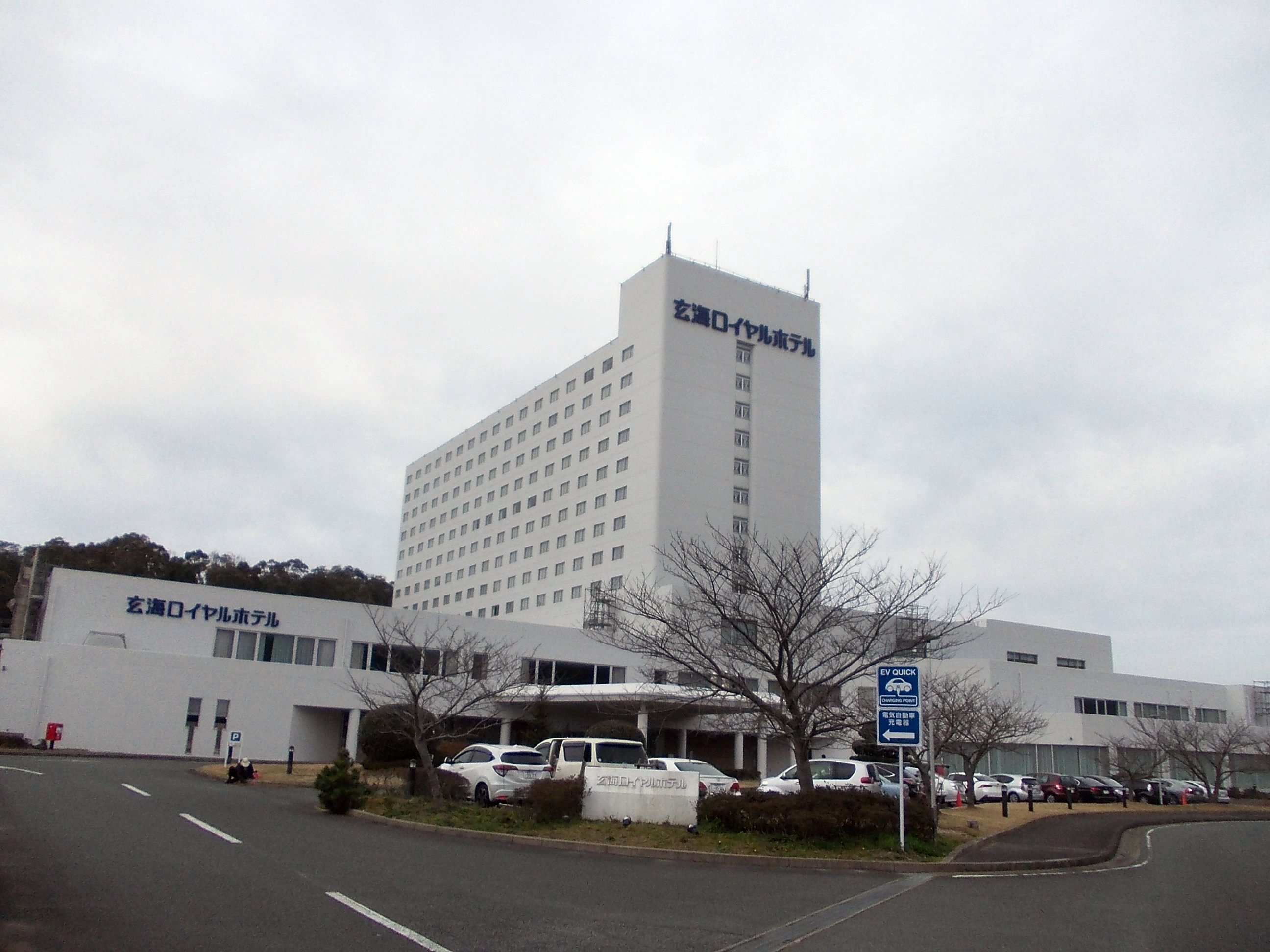 Genkai Royal Hotel, Munakata, Fukuoka, Japan